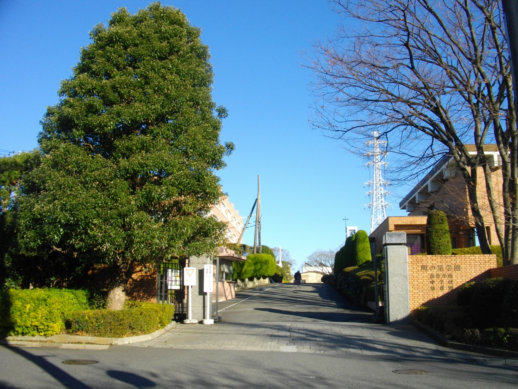 Urawa Akenohoshi Girls' Junior and Senior High School